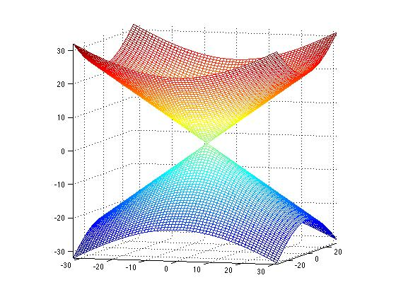 A visualization of the double cone surfaces in Fourier domain on which the dipole kernel has zeros.